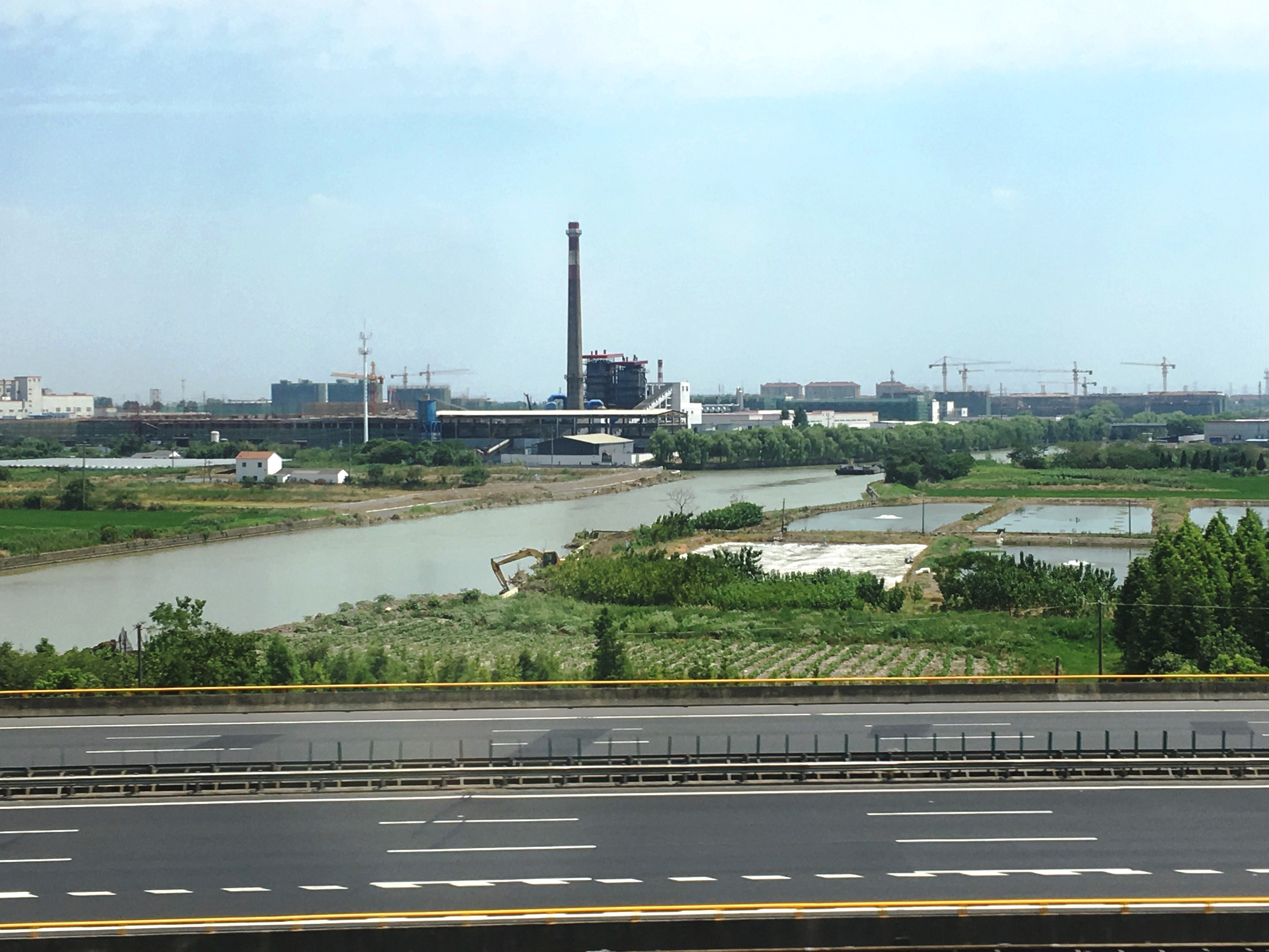 Image from the largely rural Wangdian commune inside Xiuzhou county, a part of Jiaxing city, in northeastern Zhejiang province, China. View as seen from the Shanghai-Hangzhou high speed rail line.